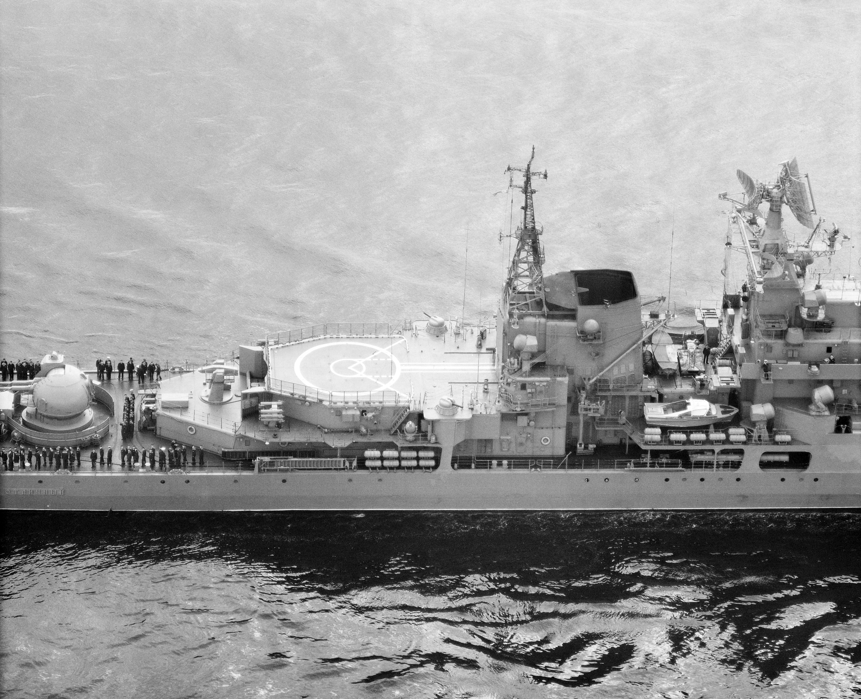 A starboard view of the forward half of the Soviet Project 956 "Sarych"(Sovremennyy class) destroyer Otlichnyy (434).